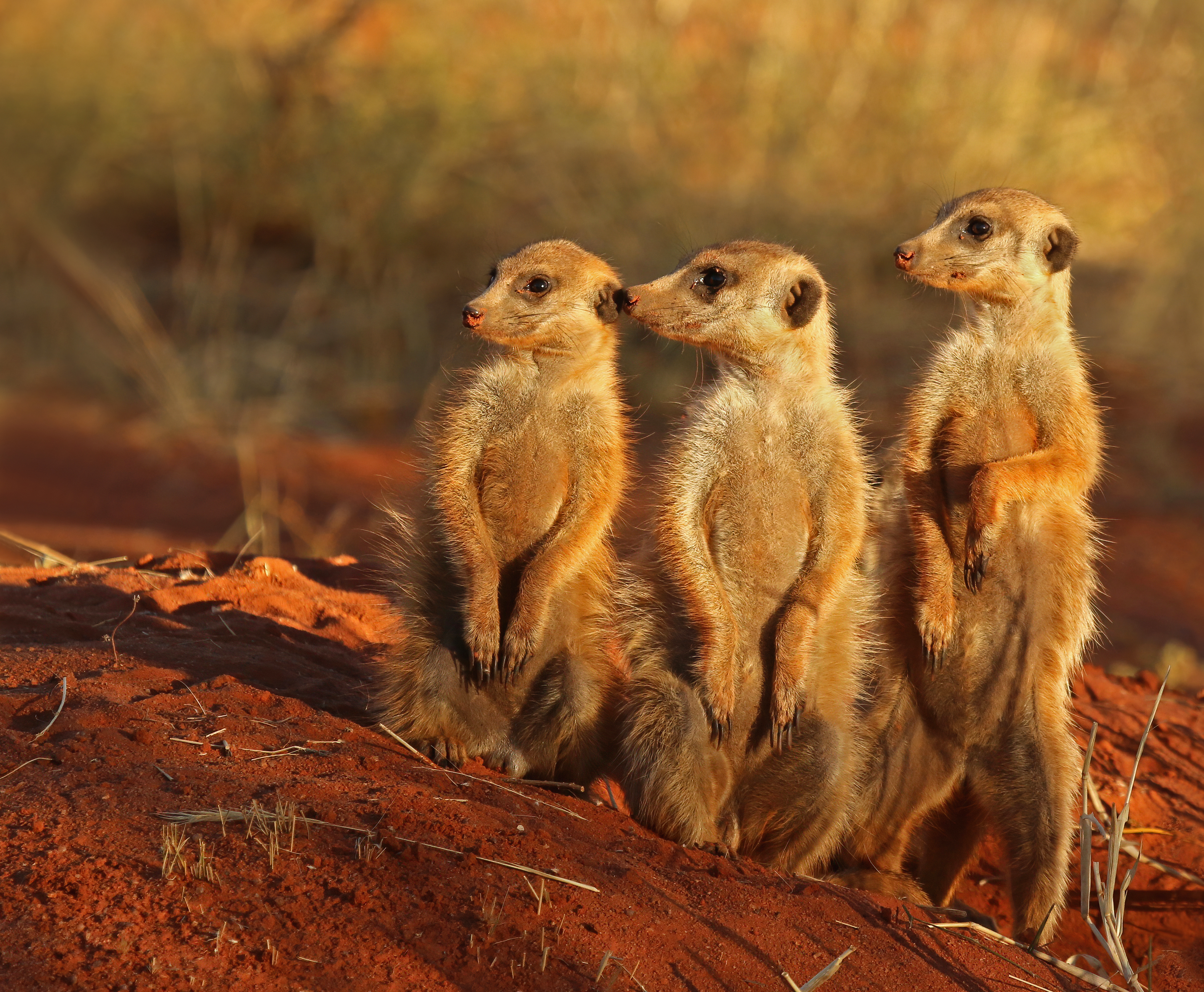 Meerkats (Suricata suricatta), Tswalu Kalahari Reserve, South Africa.